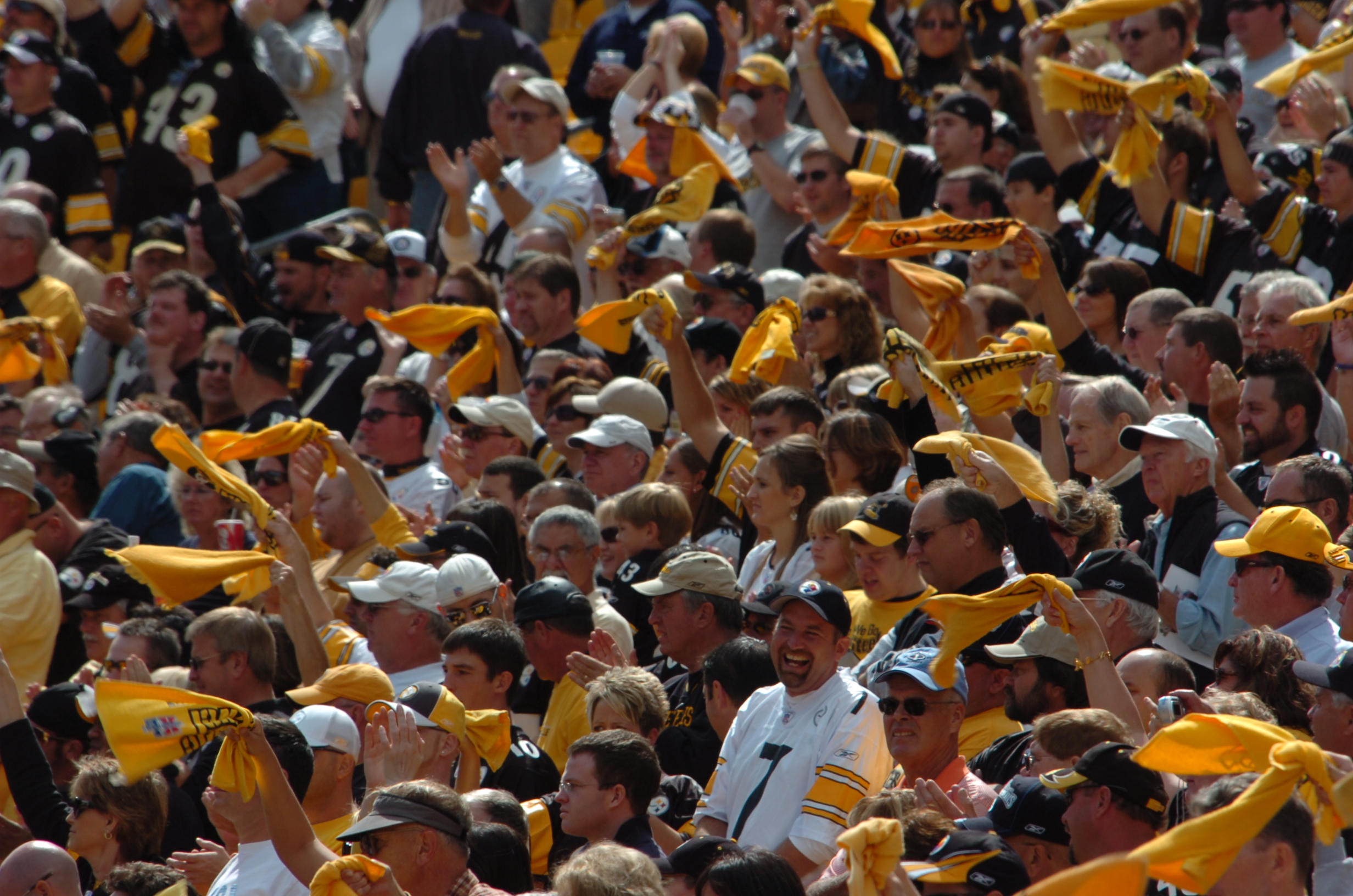 Fans of the Pittsburgh Steelers wave their Terrible Towels at the 2007 home opener in Pittsburgh.